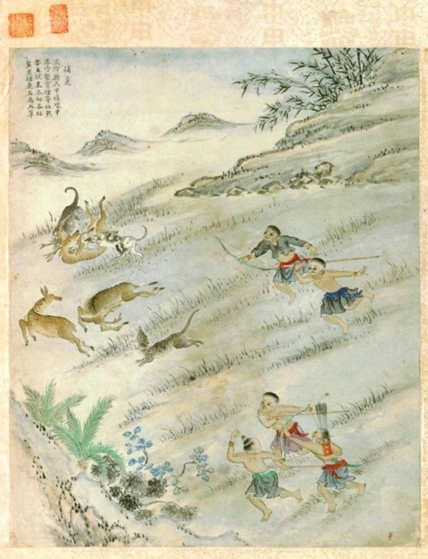 Deerhunting of Taiwanese aboriginals